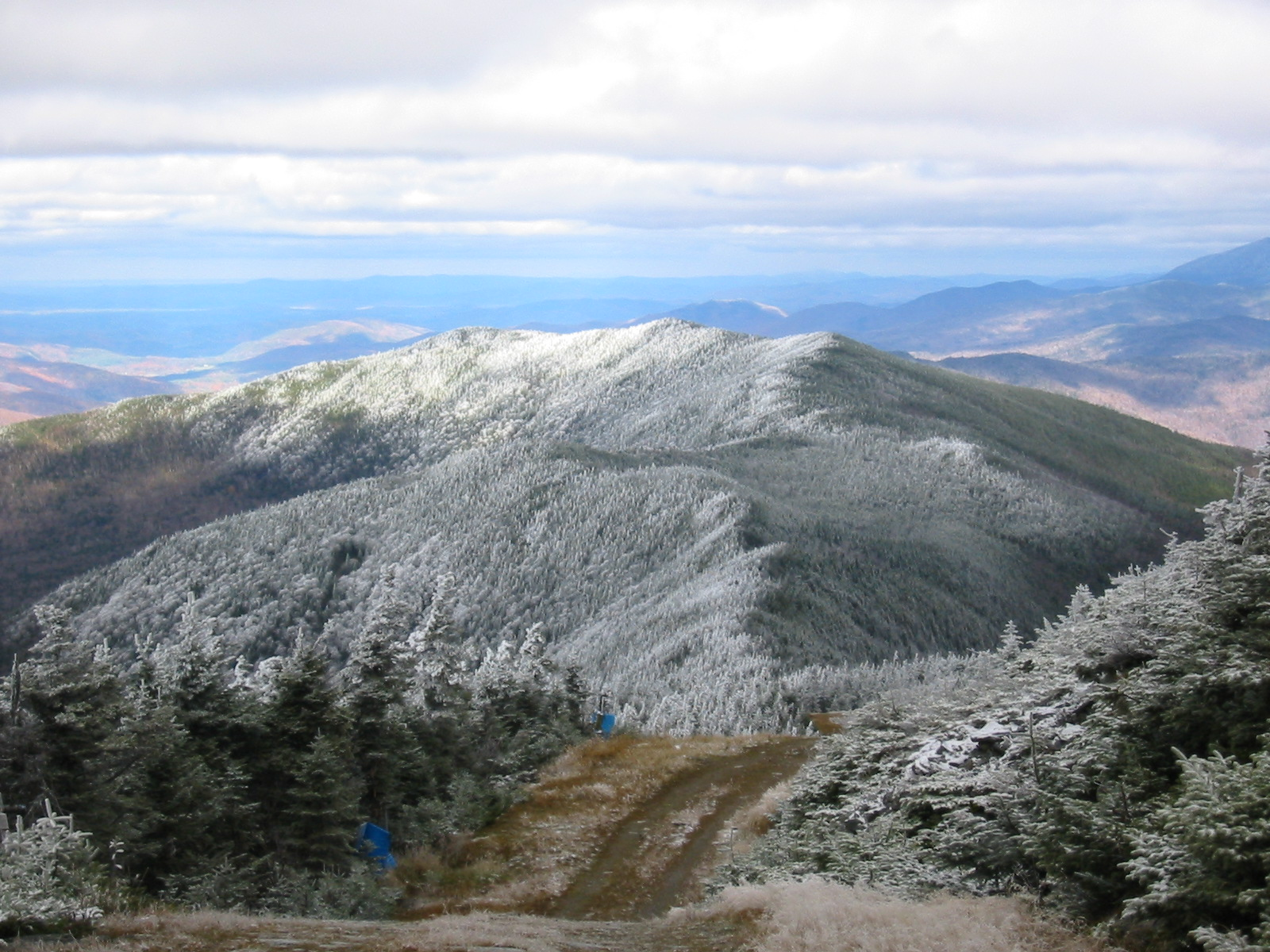 It is NOT a picture OF Mt. Ellen, it is a picture taken FROM Mt. Ellen. It was not taken in Warren (the peak of Mt. Ellen is, but I think I was standing in Fayston), and in fact the photo was taken looking north, which is in the other direction from Warren.Mt Ellen